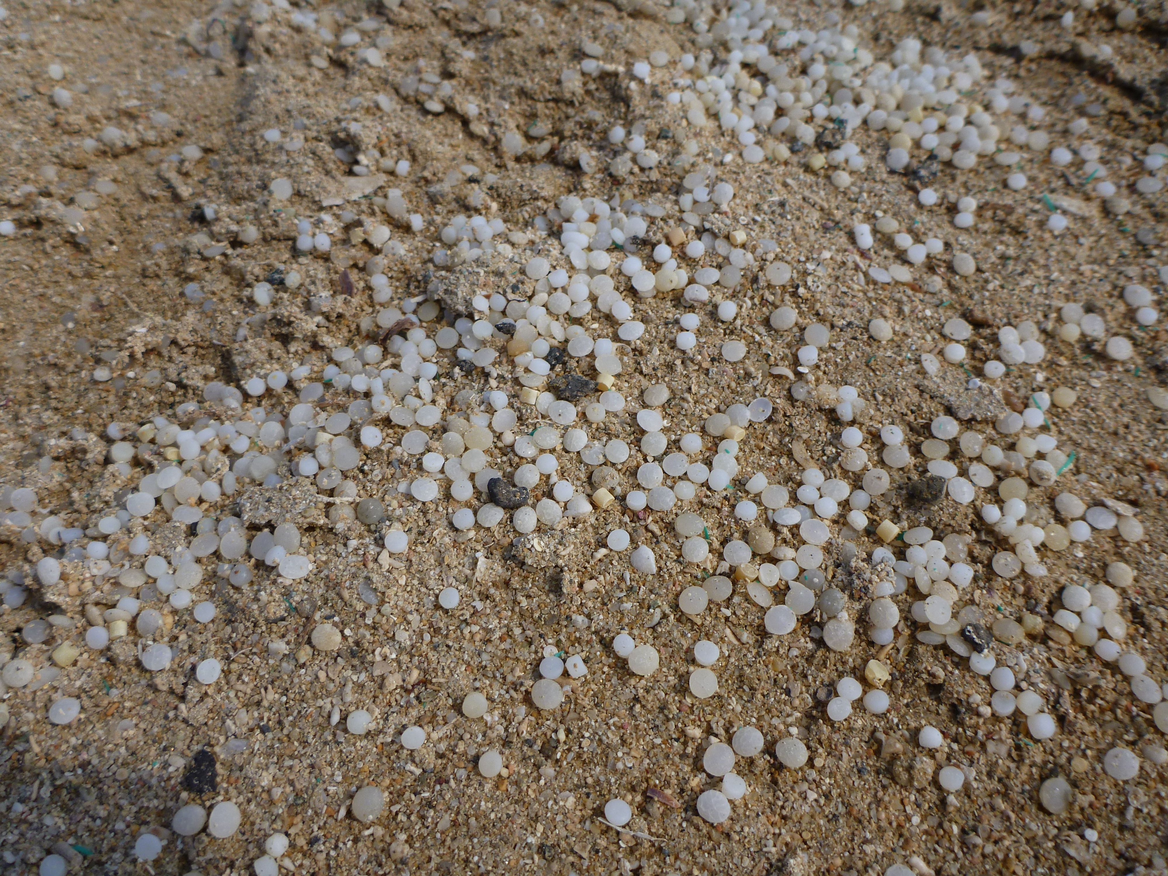 Plastic pellets at the beach close to Abu Ghusun from the ship, MS Hamada sunken at the reef.